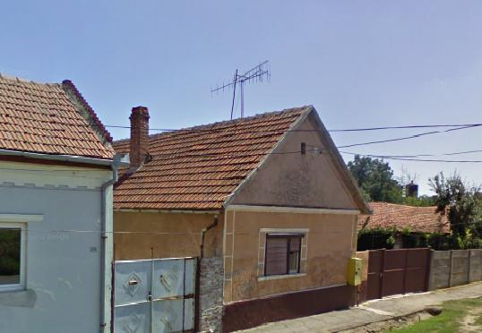 arad